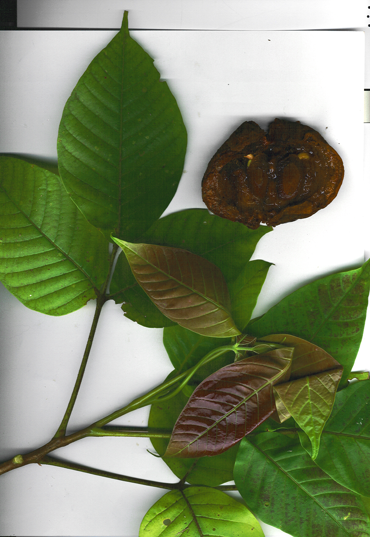 Sandoricum koetjape (plant). Location: Maui, Ulumalu and Hana Hwy